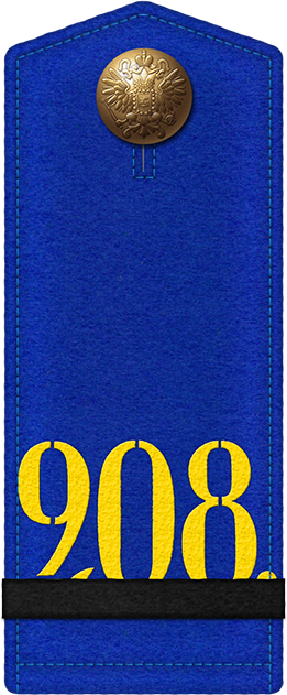 Private of Russian Lori 208th infantry regiment (dismissal of the disease in the long vacation)